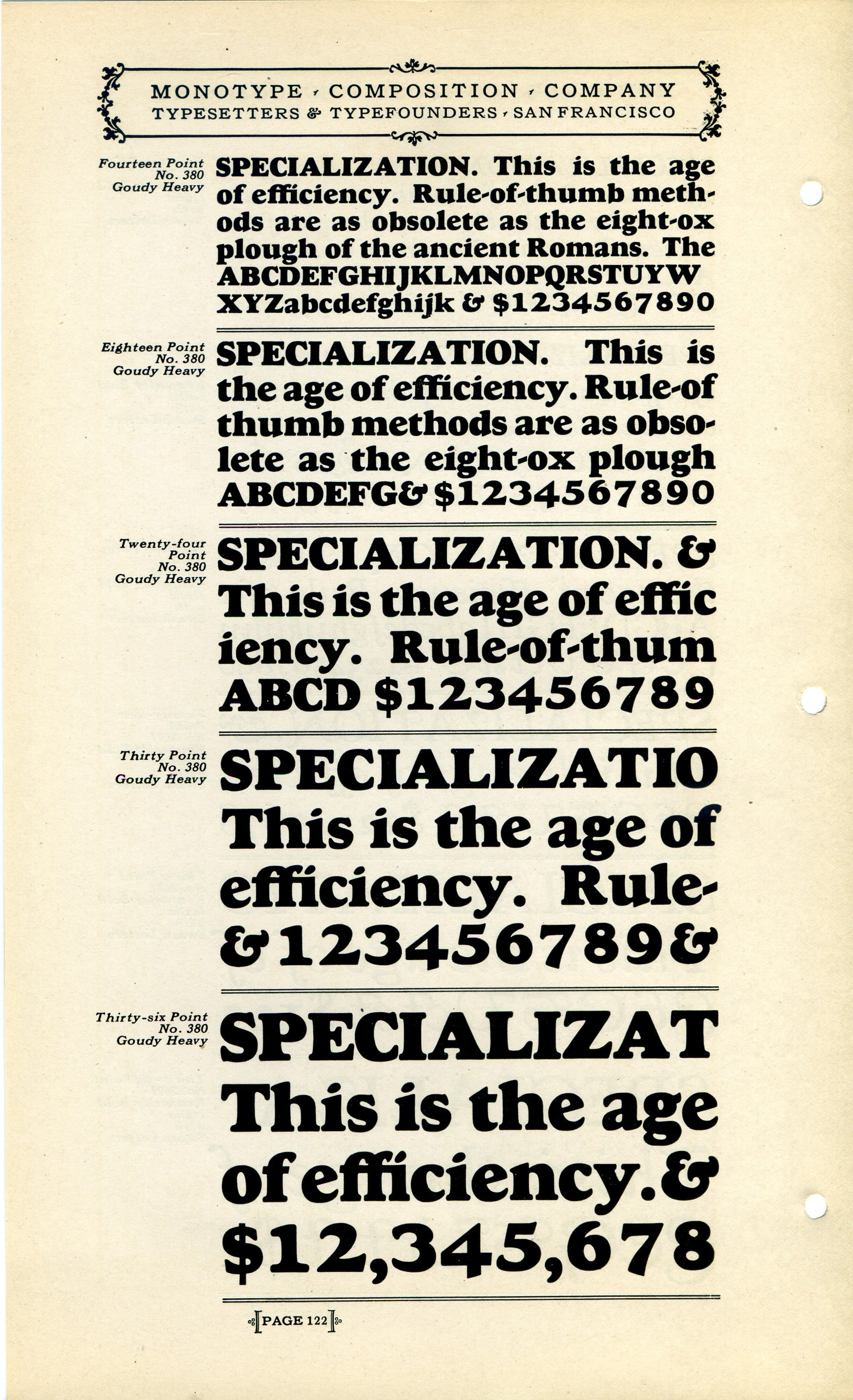 Sample of the font Goudy Heavy in metal type.